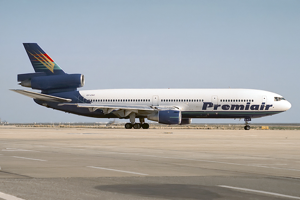 Premiair McDonnell Douglas DC-10-10 OY-CNT at Faro Airport